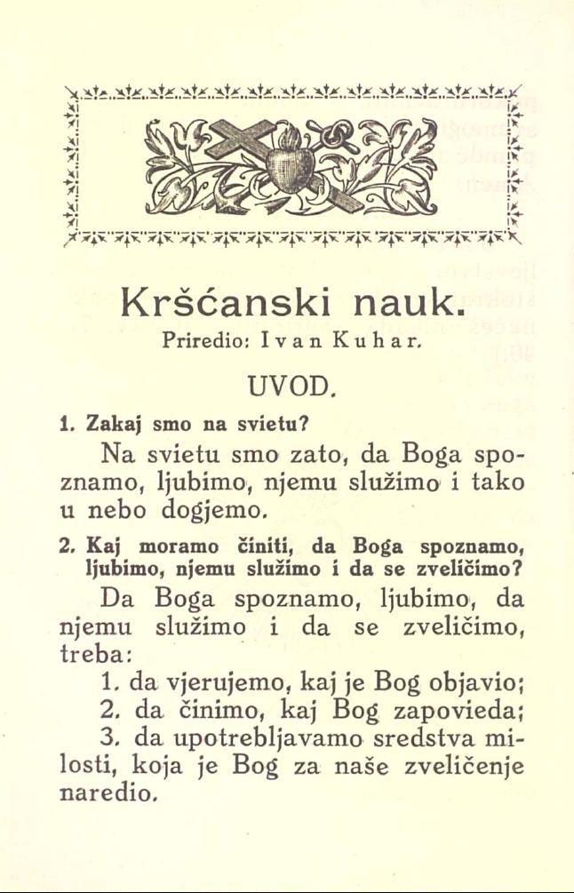 Kršćanski nauk (Christian tenet), small Kajkavian-Štokavian cathecism of Ivan Kuhar (1880-1941) in the prayer-book Jezuš, ljubav moja (1916)